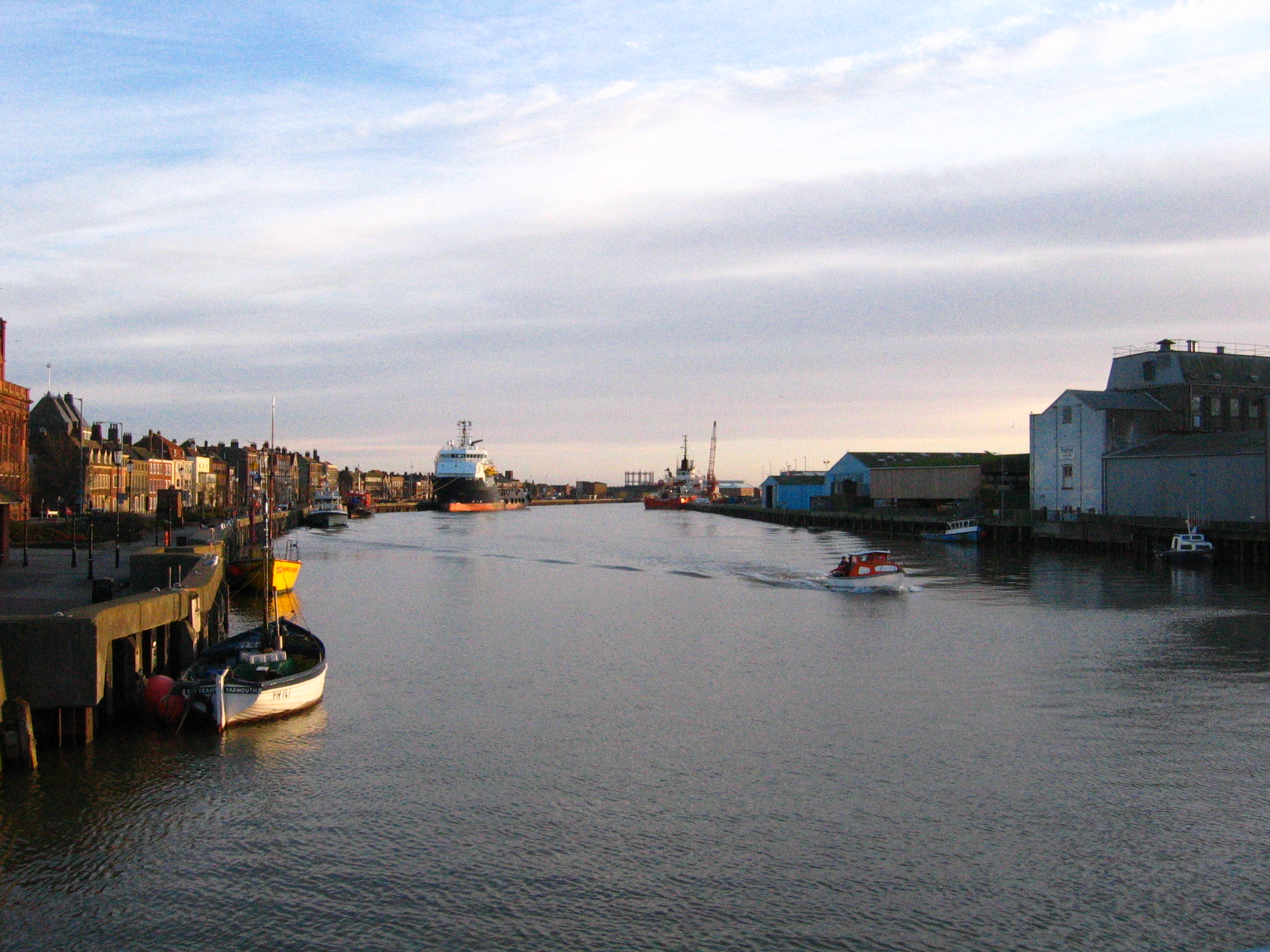 Both sides of the River Yare in Great Yarmouth. Quays with boats, ships, houses and storage buildings.